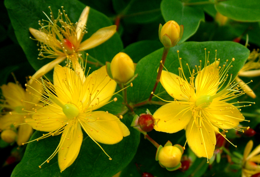 Hypericum blooms with their spiky overskirts, like tutus